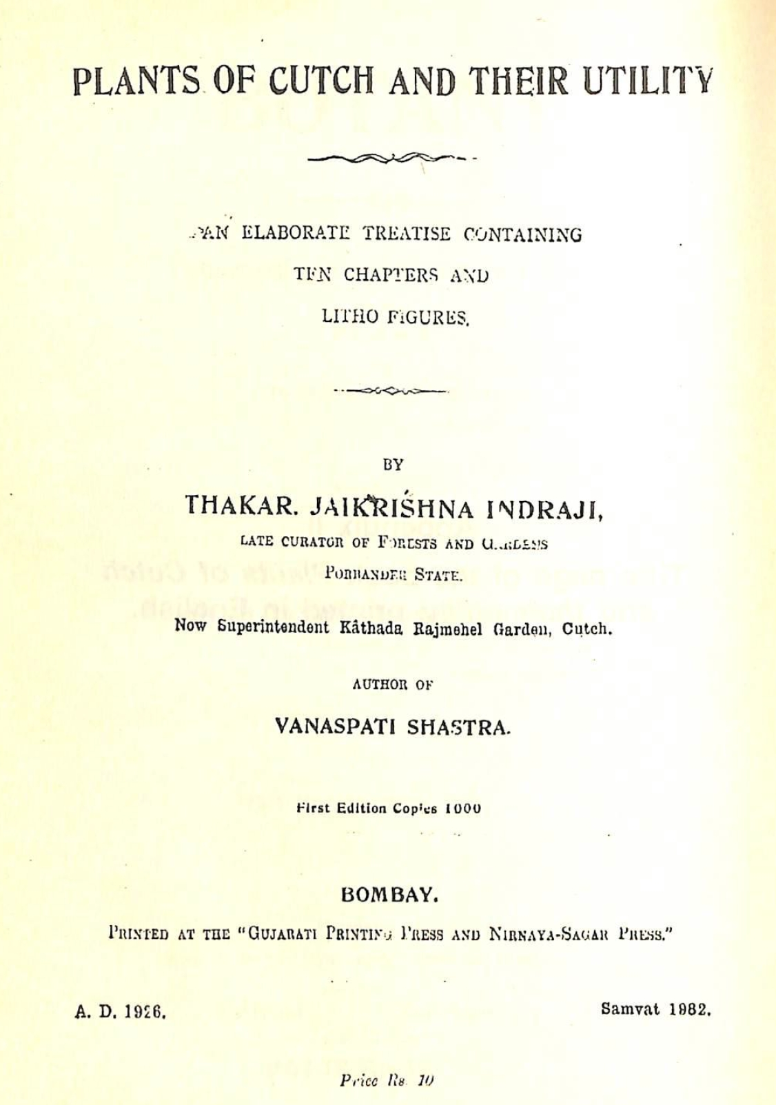 Cover of Plants of Cutch and their utility (1926)